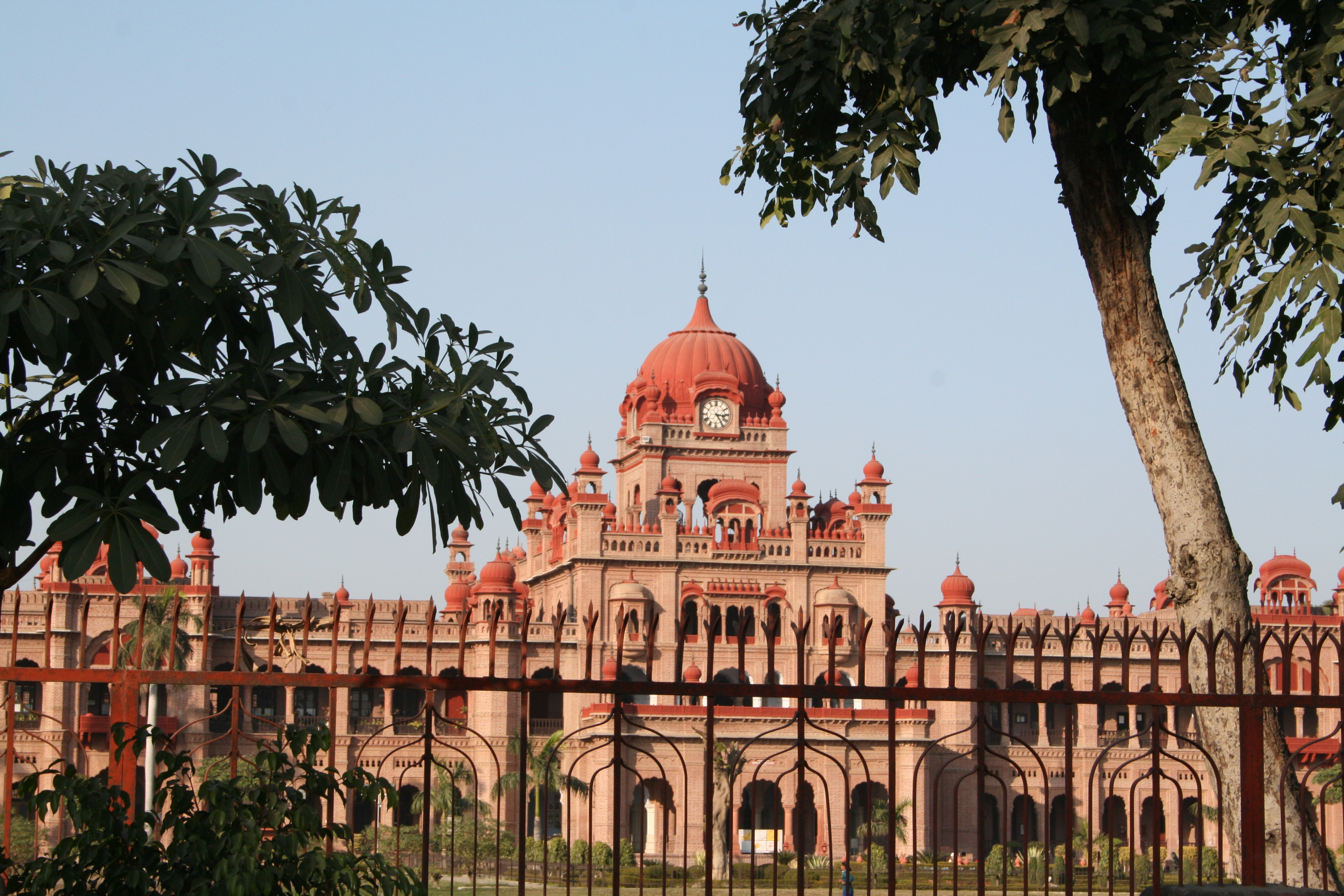 Khalsa College, Amritsar, India. Indo-Saracenic Revival style of British colonial architecture.